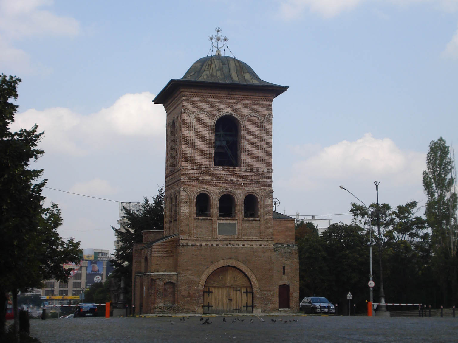 Patriarchate Hill, Bucharest